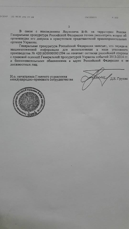 Letter from the Prosecutor General's Office of Russia 87-103-2017 2017-03-07